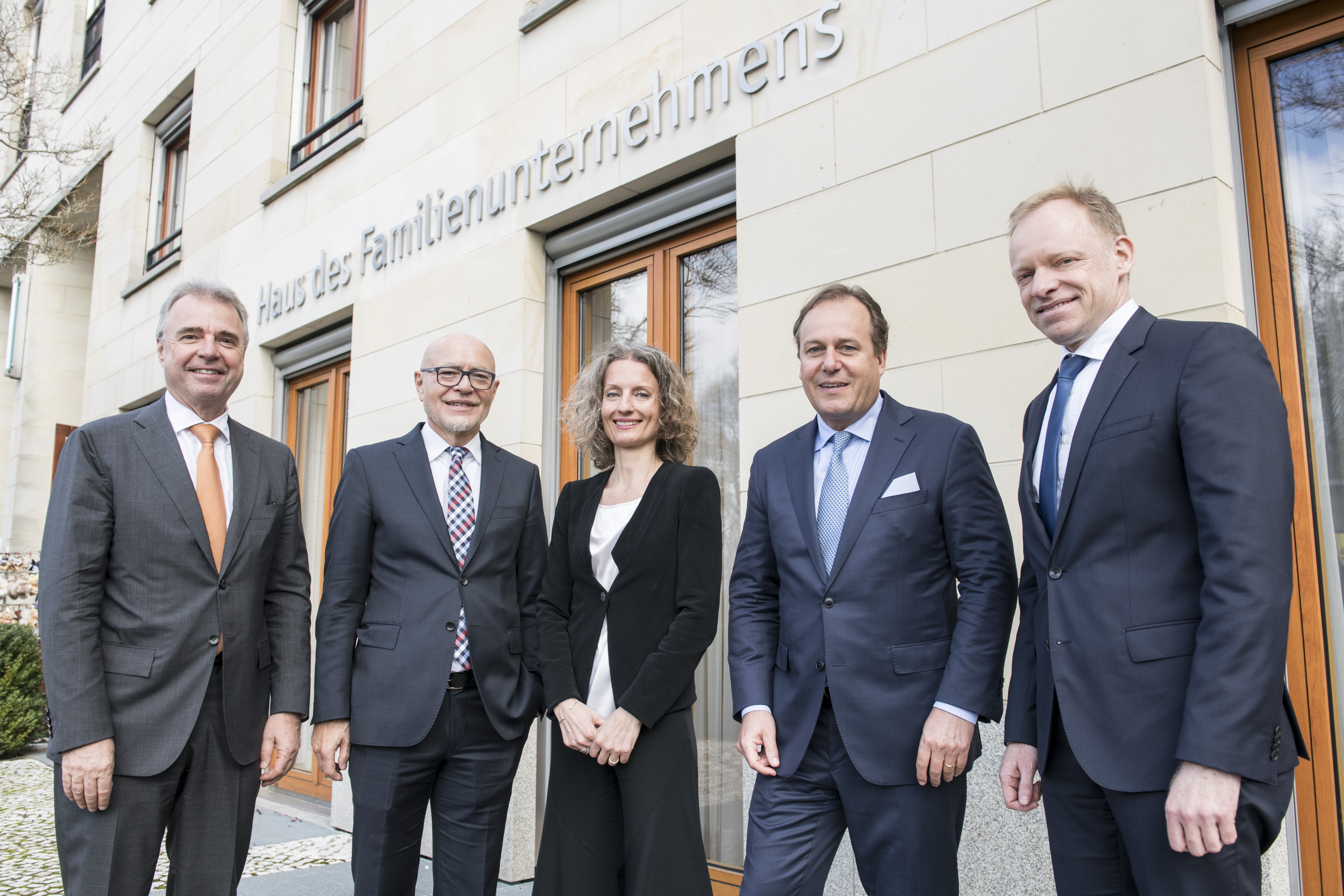 Scientific Advisory Board of the Foundation for Family Businesses in front of the "Haus des Familienunternehmens" in Berlin